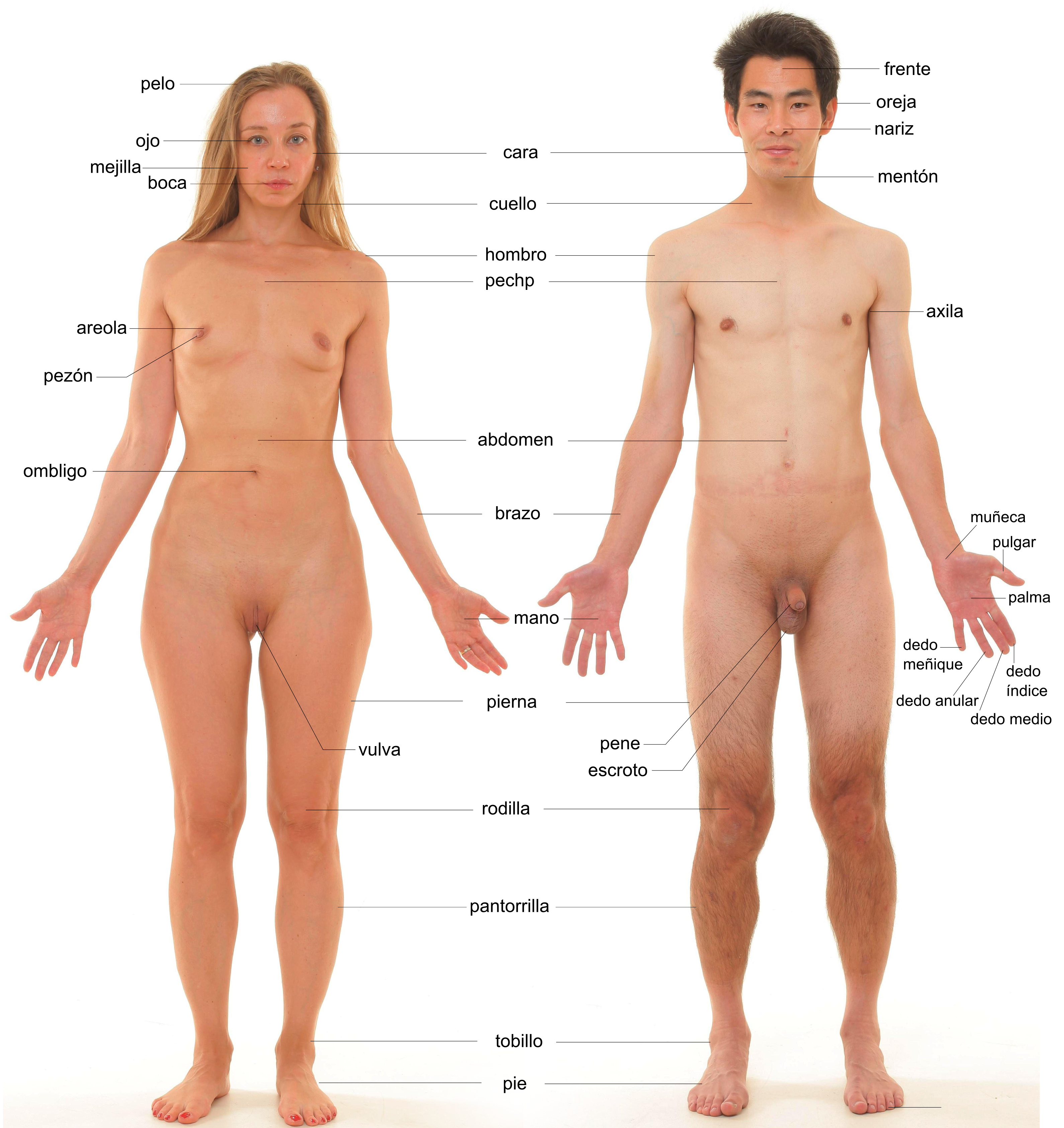 Naked female and male human body with labels.